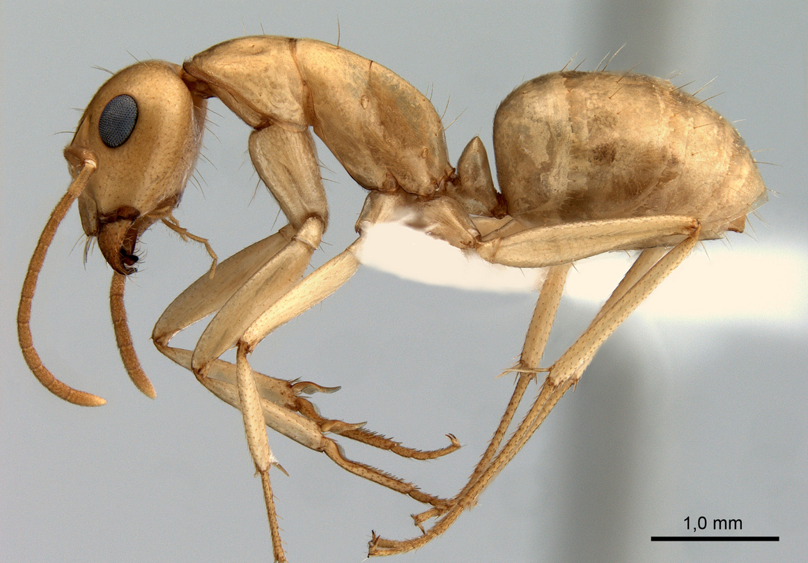 Camponotus fedtschenkoi